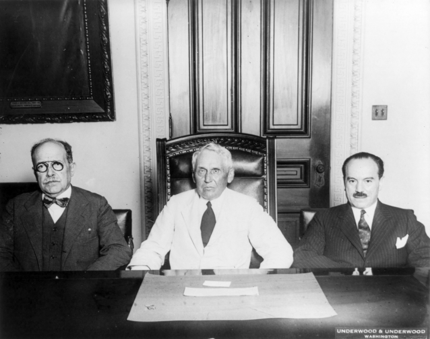 Frank B. Kellogg moves to end seventeen year old dispute between Chile and Peru. Dr. Hernan Velarde, Peruvian Ambassador (left); Secy. of State Frank B. Kellogg (center), and Chilean Ambassador Don Carlos G. Davila (right), in Kellogg's office in Washington.